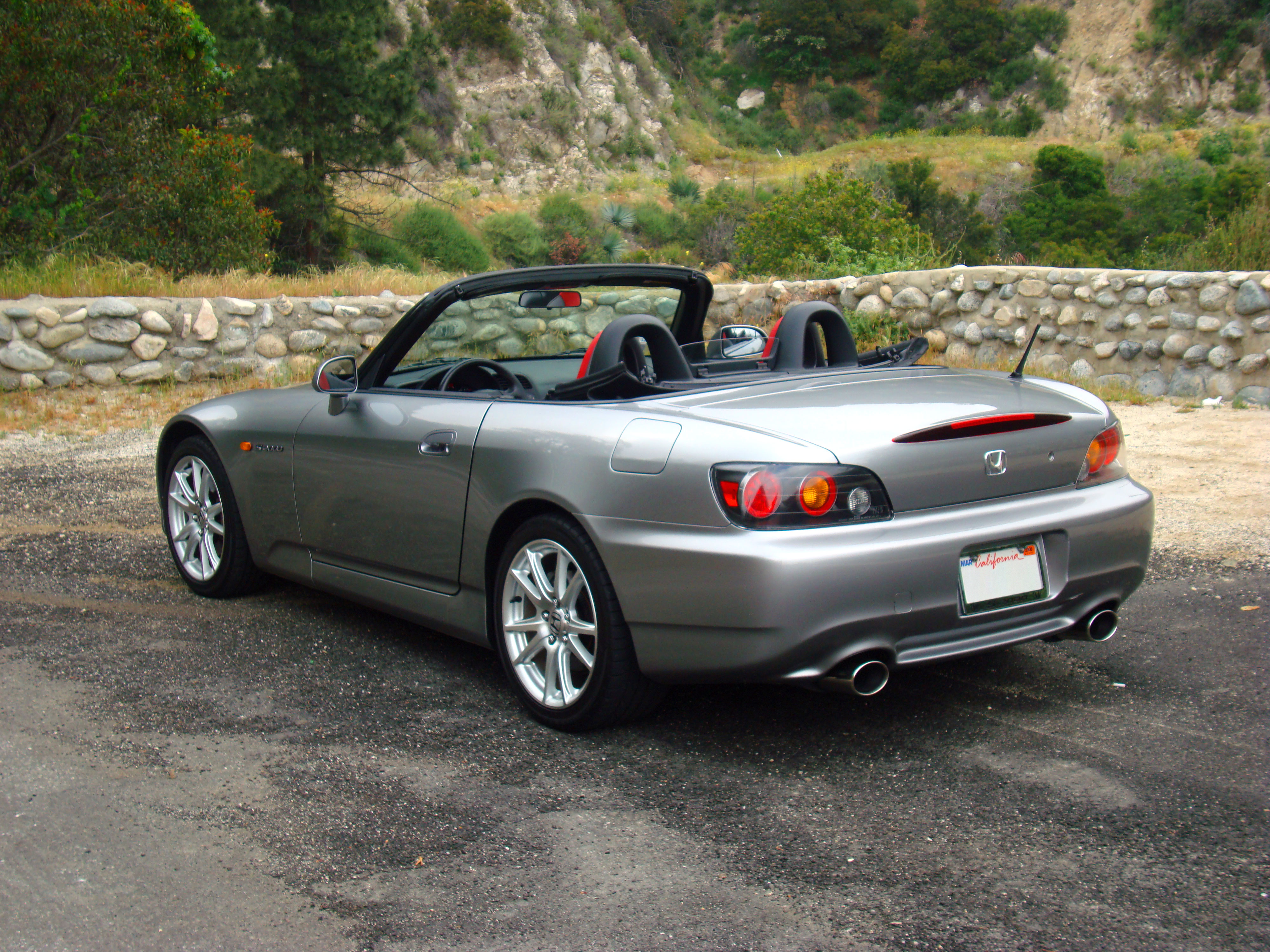 2005 Honda S2000. Camera used was a Sony Ericsson DSC-W200.